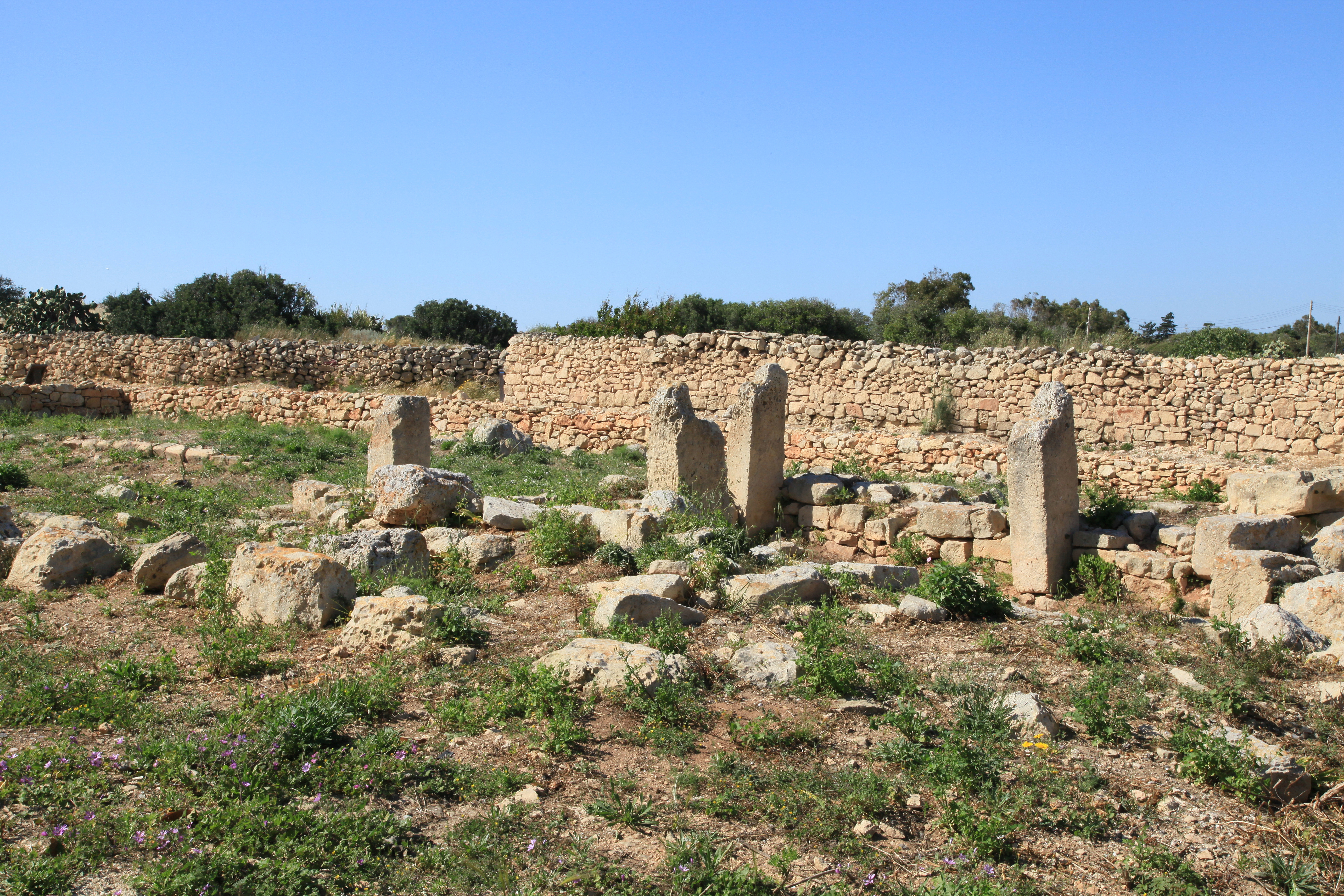 Iż-Żona tal-Baqqari at Triq Ħal Far in Żurrieq, Malta